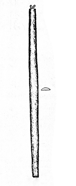 Some Ancient Relics Of The Aborigines Of The Hawaiian Islands